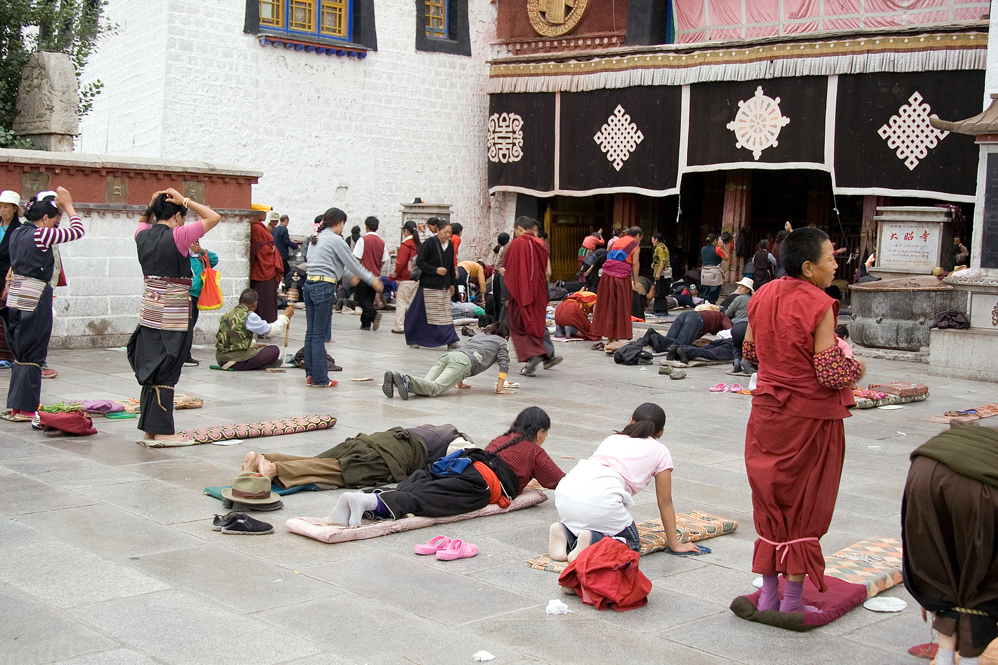 Prayer and prostration in front of the Jokhang Monastery, the most sacred and important temple in Tibet.